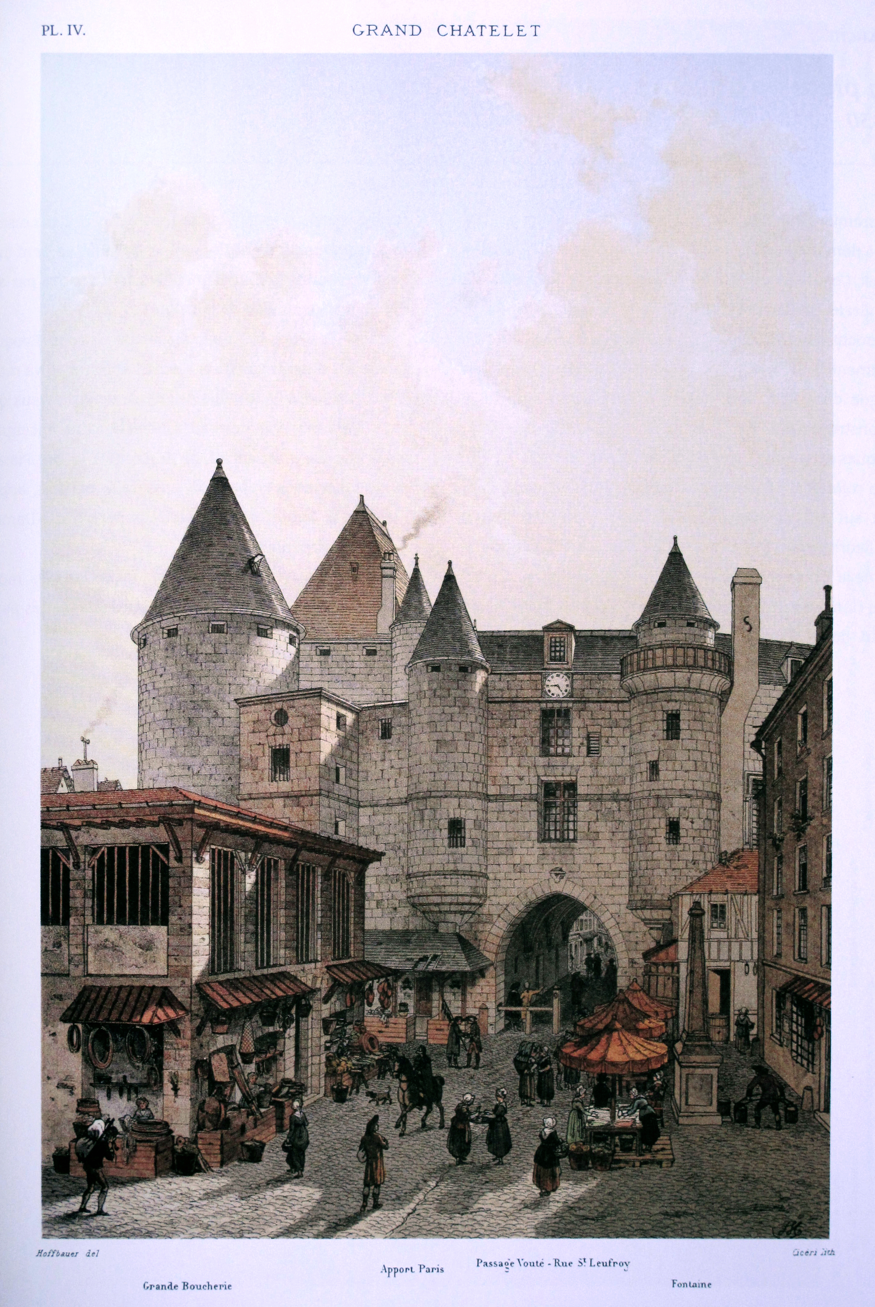 The fortress of the Grand-Châtelet (=big castle), seen from the rue Saint-Denis in 1800 looking south.